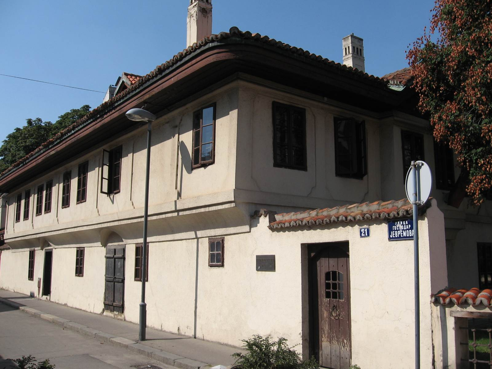 House in Dorćol, Belgrade